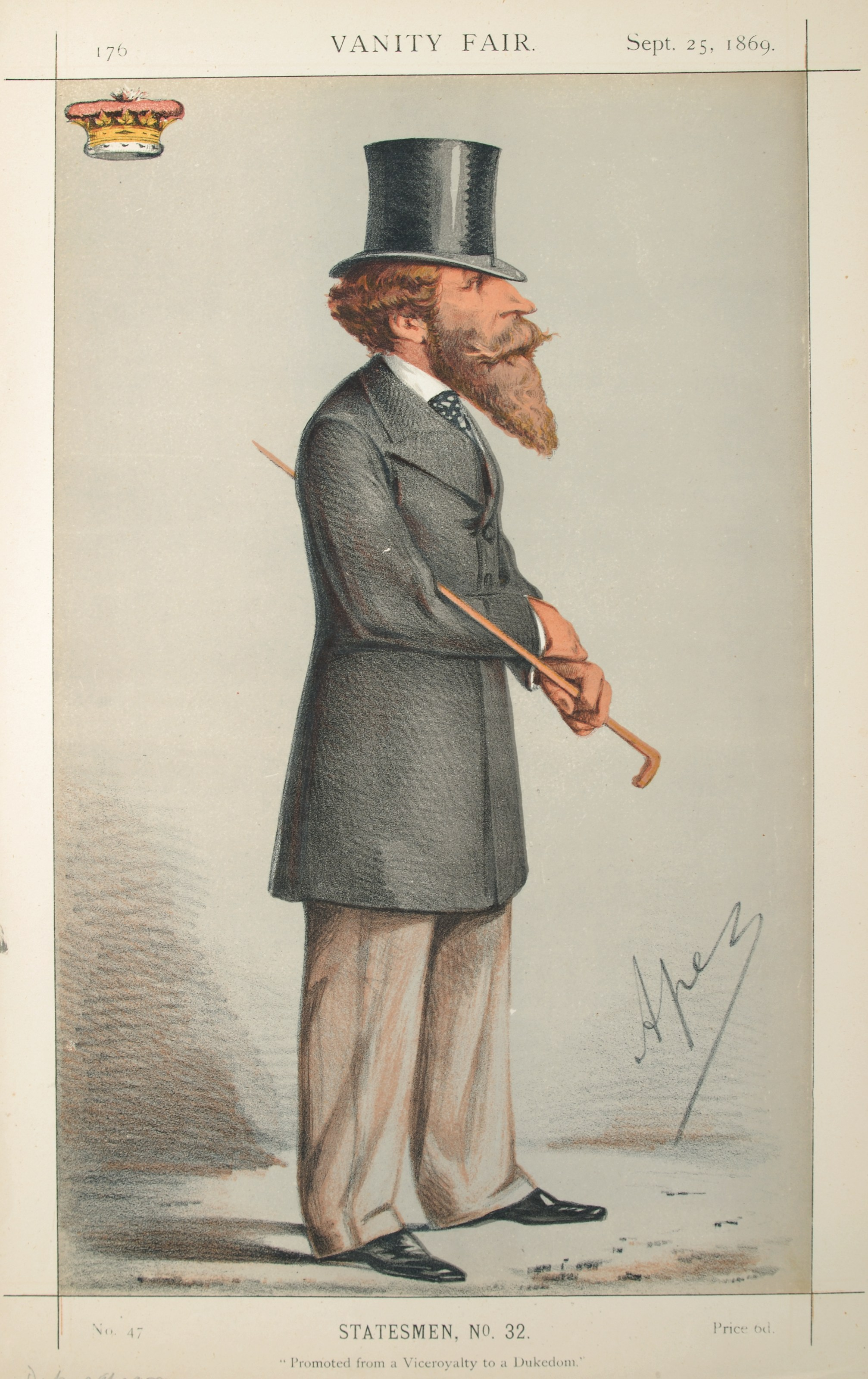 Statesmen No.32: Caricature of The Duke of Abercorn. Caption reads: "Promoted from a Viceroyalty to a Dukedom."